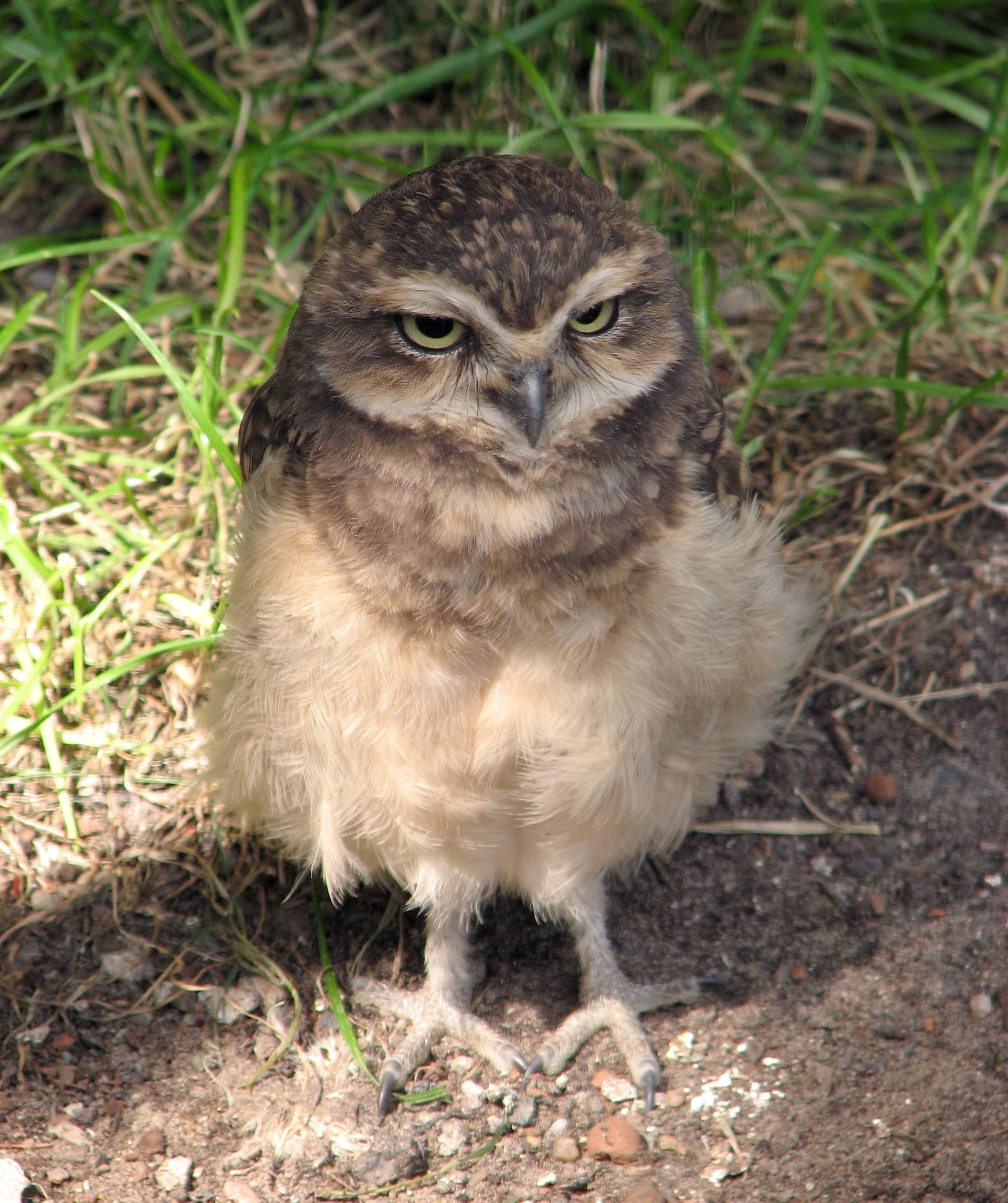 Burrowing owl.